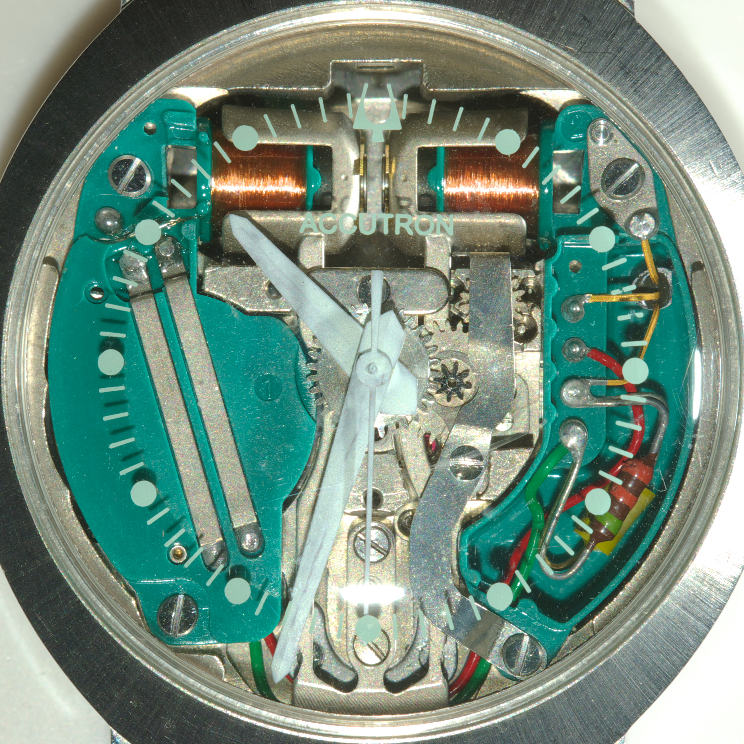 Bulova Accutron Space View. Manufactured in 1963.